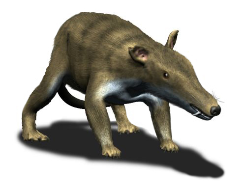 Cronopio